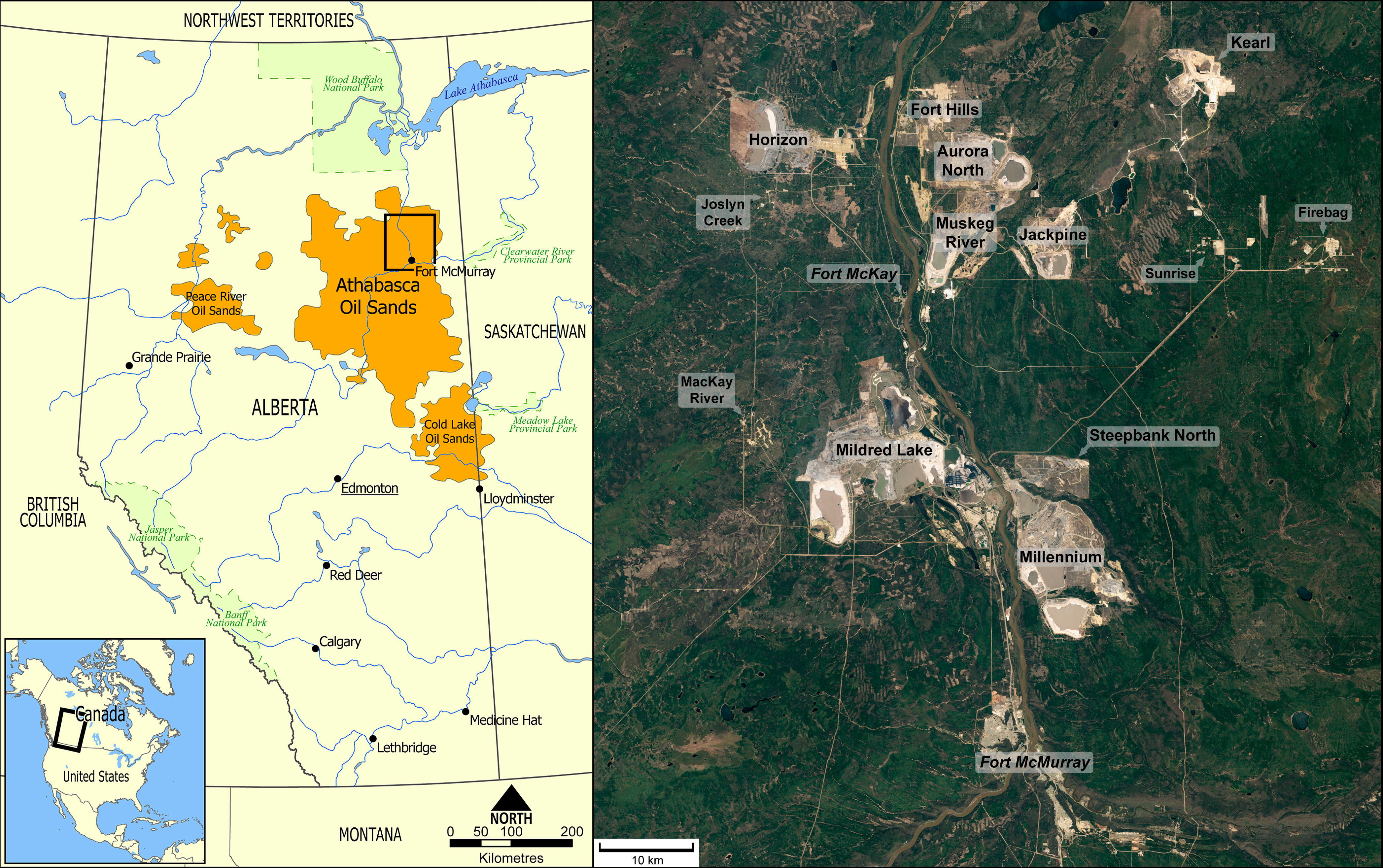 Map of Alberta showing extension of oil sand occurences (left) and annotated satellite image (right) with oil sand open-cast mines and in-situ production sites along the Athabasca River north of Fort McMurray. The satellite image shows the situation in 2011. The photographed area ist the only place in Alberta in which oil sands are mined in open pits. All other oil sand bitumen production sites are utilizing (mainly steam-based) in-situ methods (SAGD, CSS).